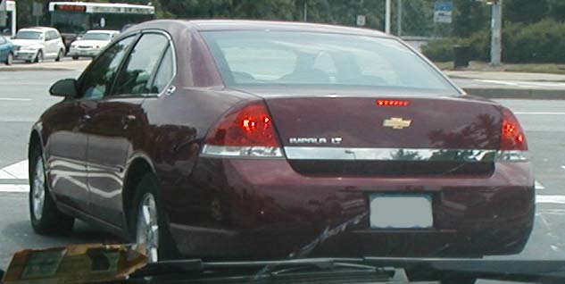 Rear end of a 2006 Chevrolet Impala photographed in USA.